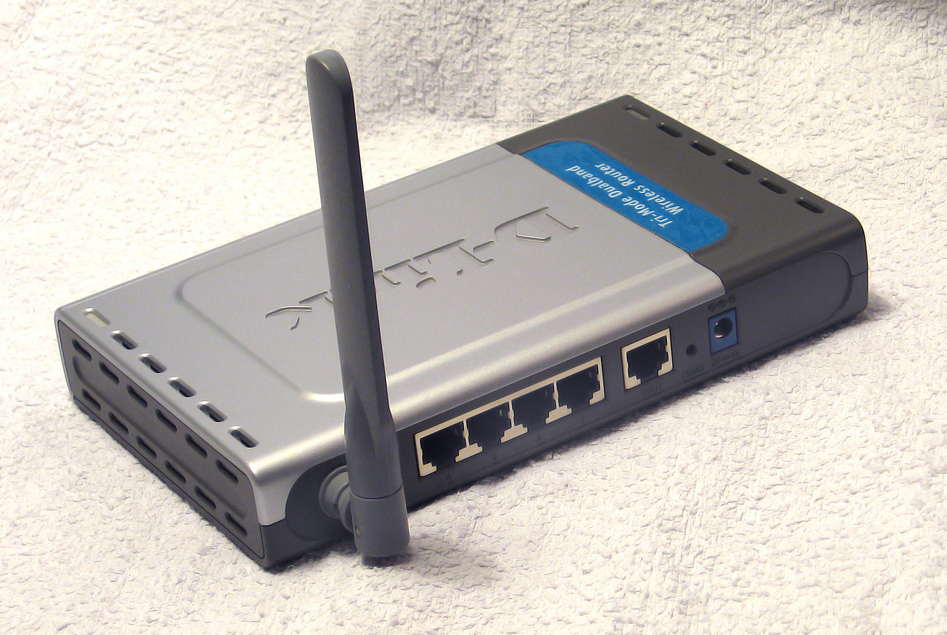 D-Link DI-774 Tri-Mode A/B/G Dualband Wireless Router ( 802.11a 802.11b 802.11g ) (Rear)